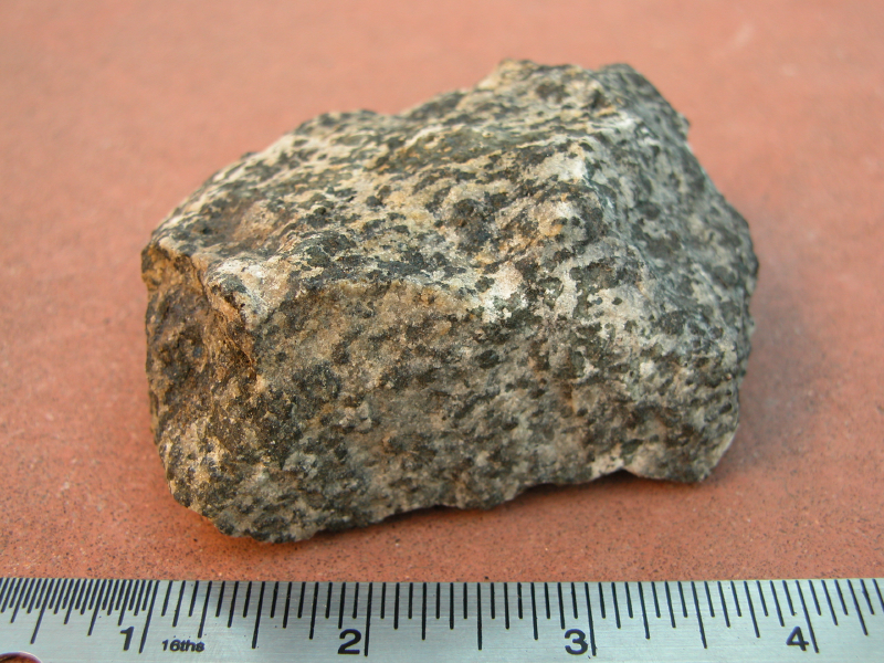 Specimen of norite from Rock Library (NASA JPL). Scale is in inches.